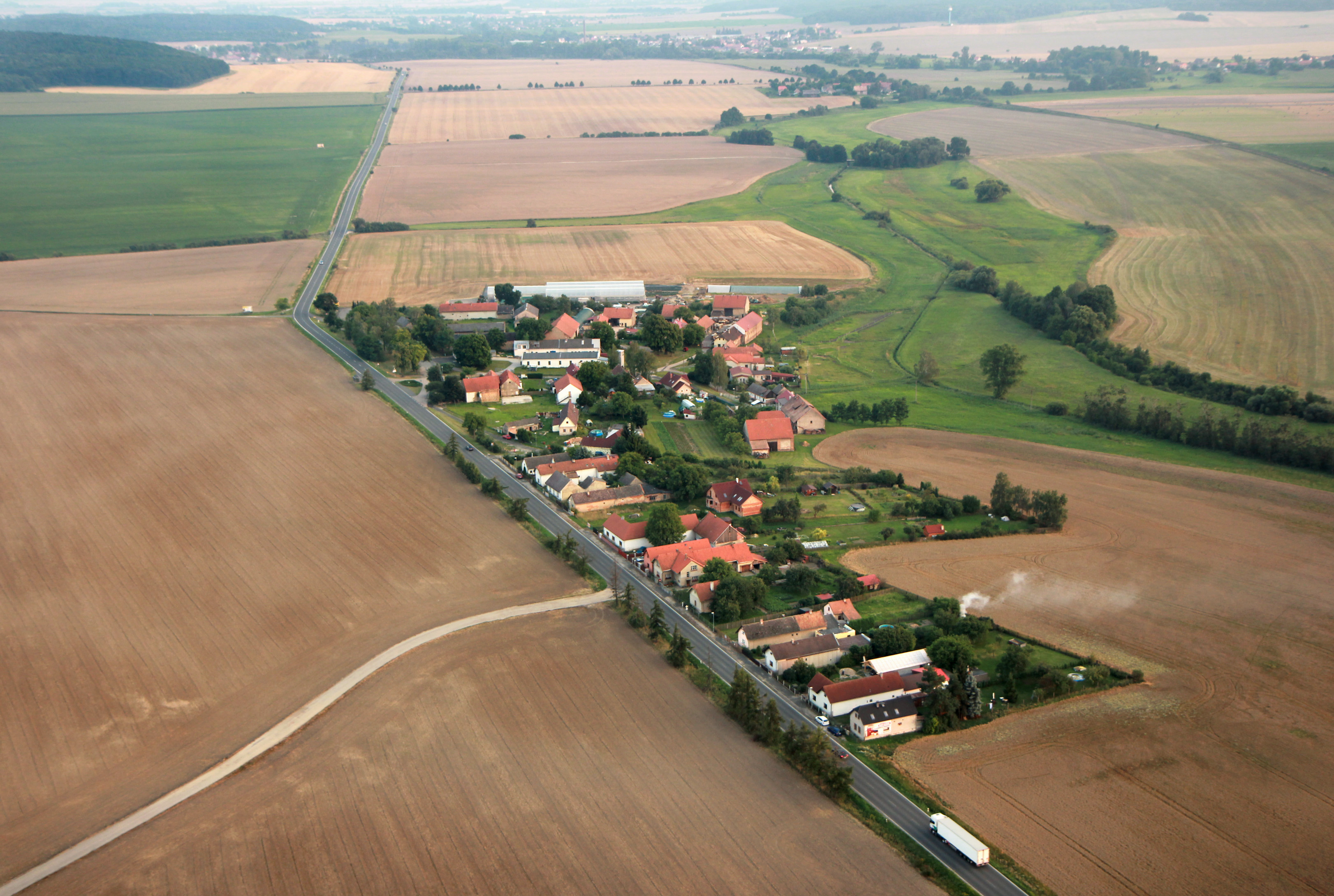 Aerial view of Bratronice, part of Smilovice village, Czech Republic